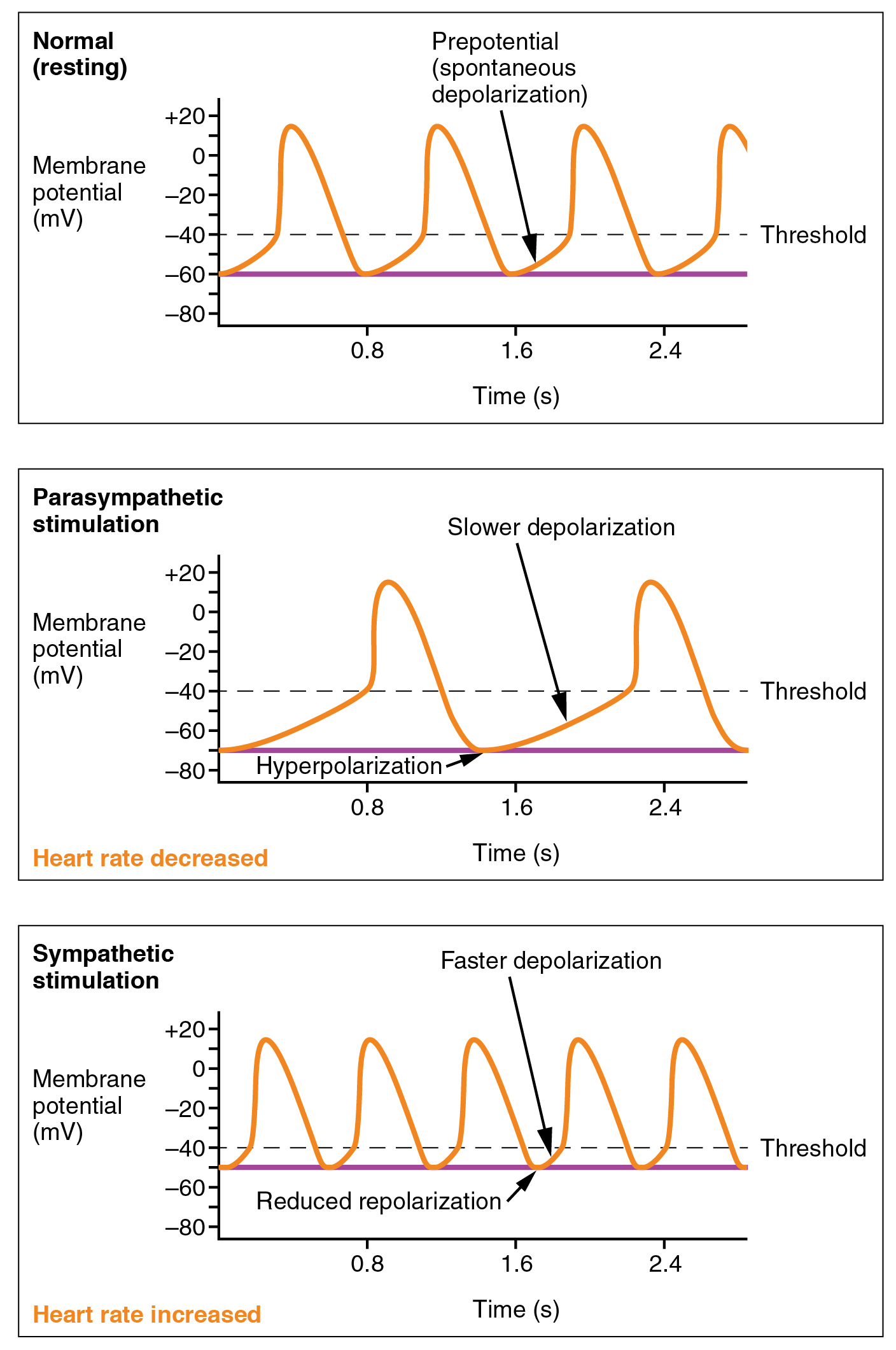 Illustration from Anatomy & Physiology, Connexions Web site. Jun 19, 2013.